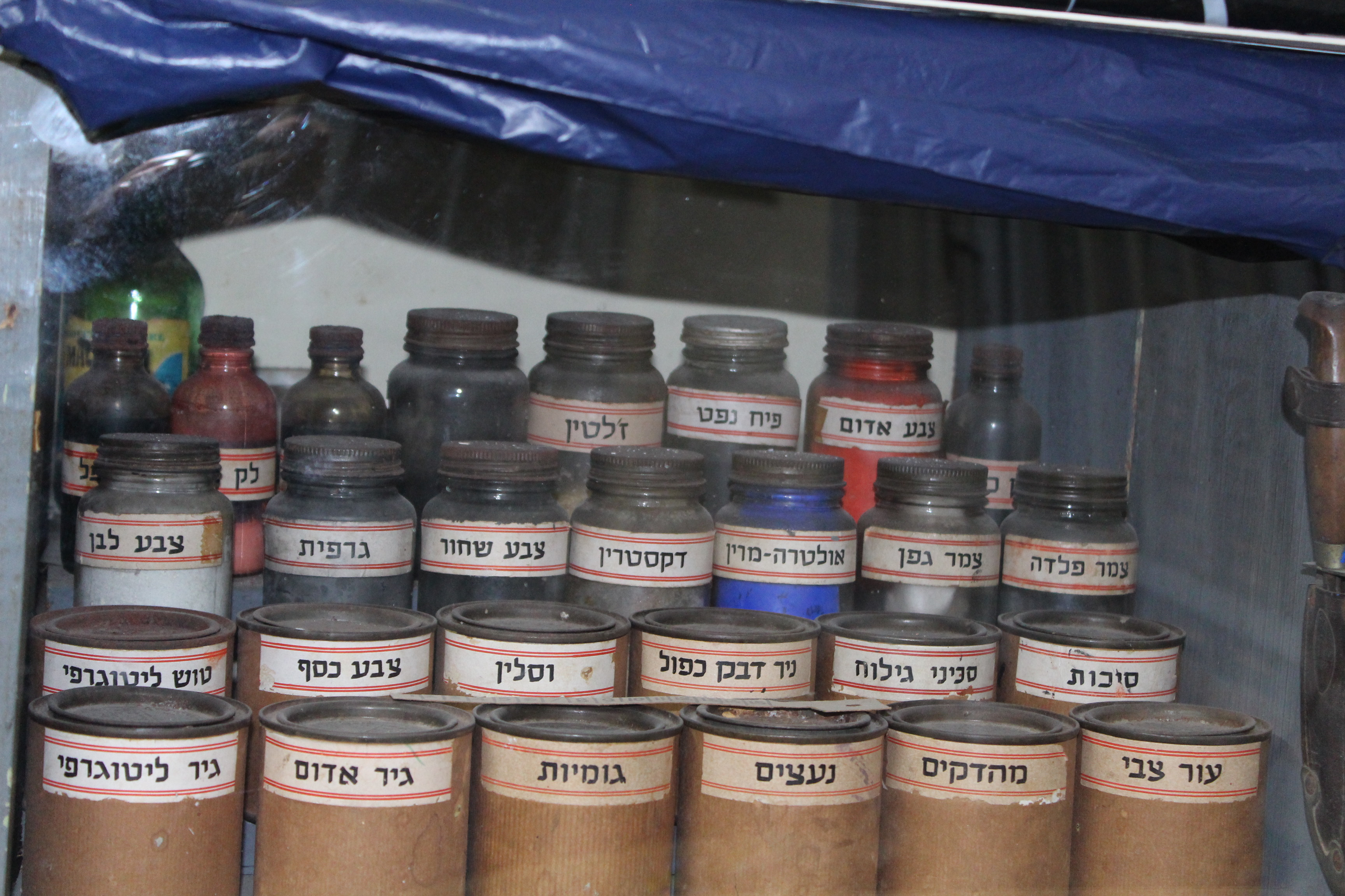 Joseph Bau Museum, Tel Aviv, Israel This image was taken as part of the Elef Millim project trip to the Joseph Bau Museum, in Tel Aviv Israel which was held on Friday, 31st January 2014. To view all images uploaded as part of the Elef Millim Project